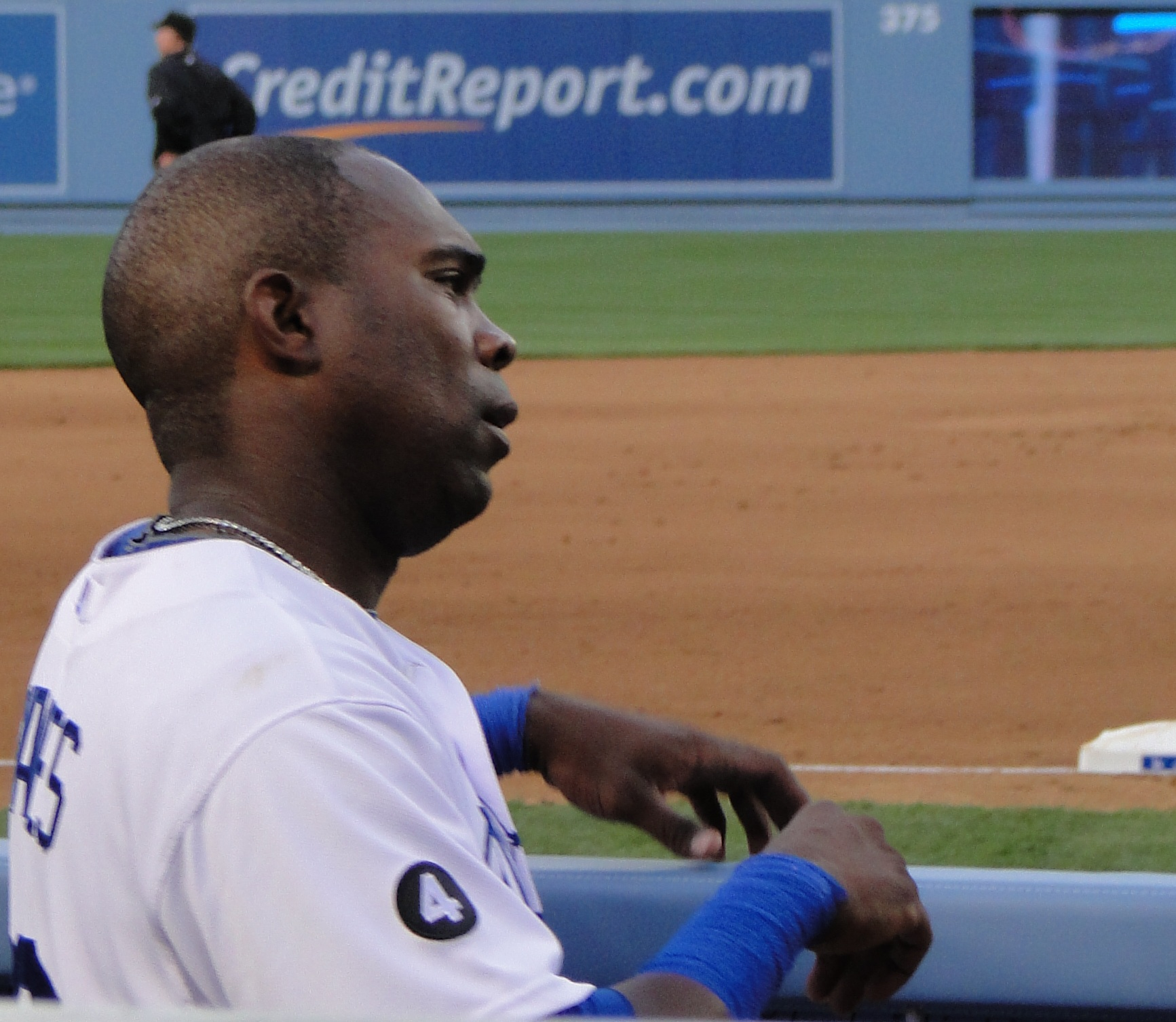 Marcus Thames in Dodgers dugout.